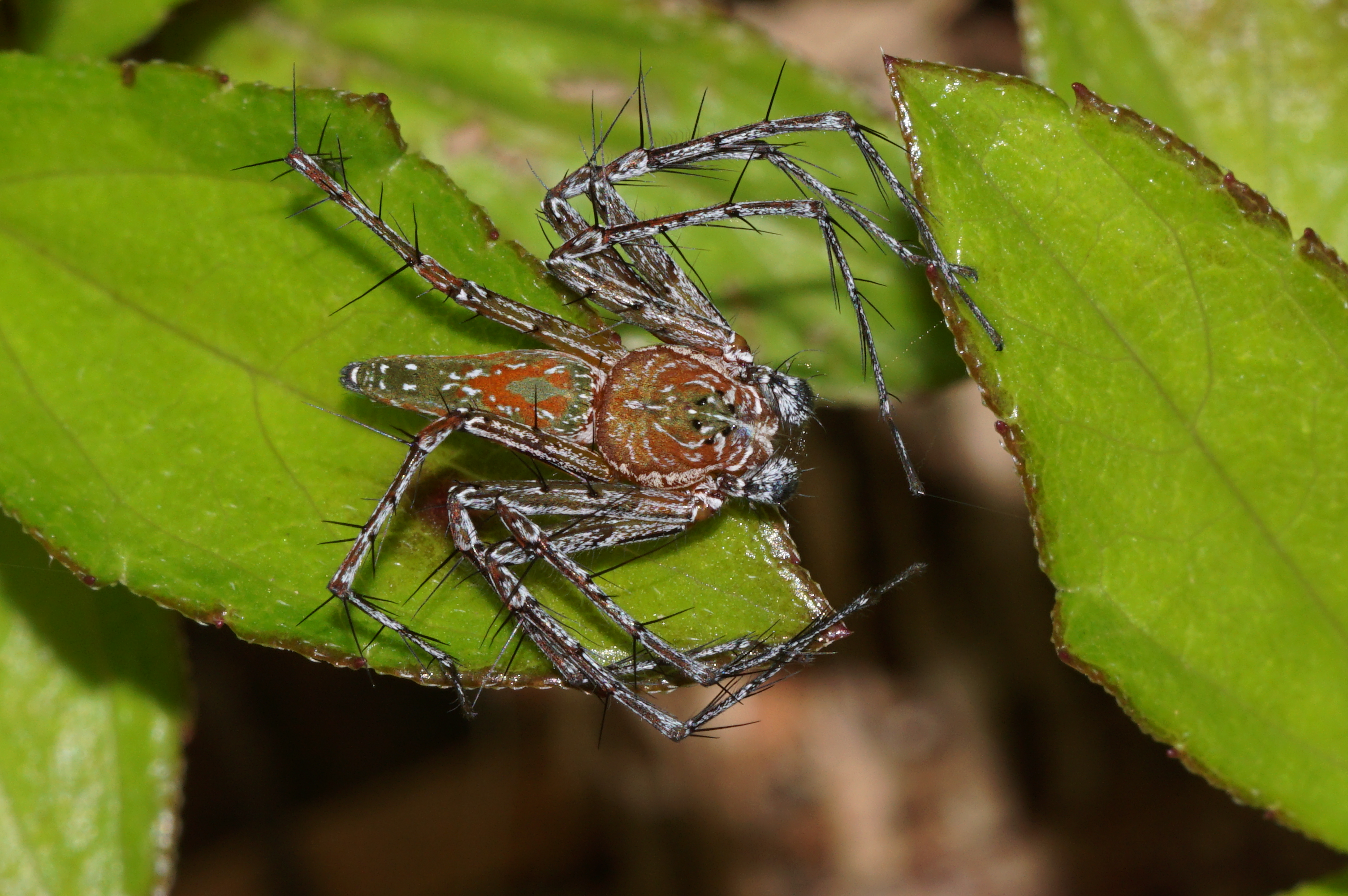 Hamadruas sp. near Chemancheri, Kerala, India